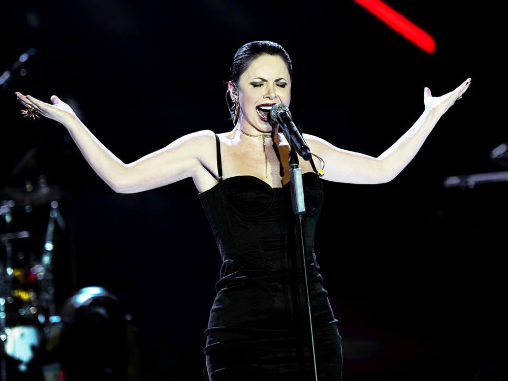 Şebnem Ferah Vodafone Freezone 2012 Concert Istanbul